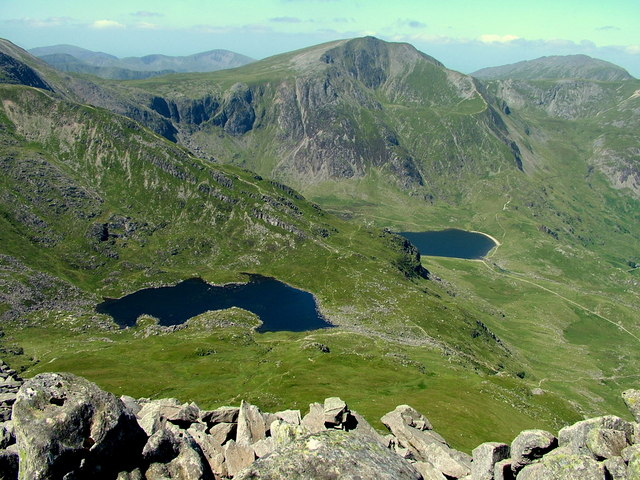 Y Garn from Tryfan. Y Garn is in the centre with Llyn Bochlwyd and Llyn Idwal below, and Elidir Fawr to the right.